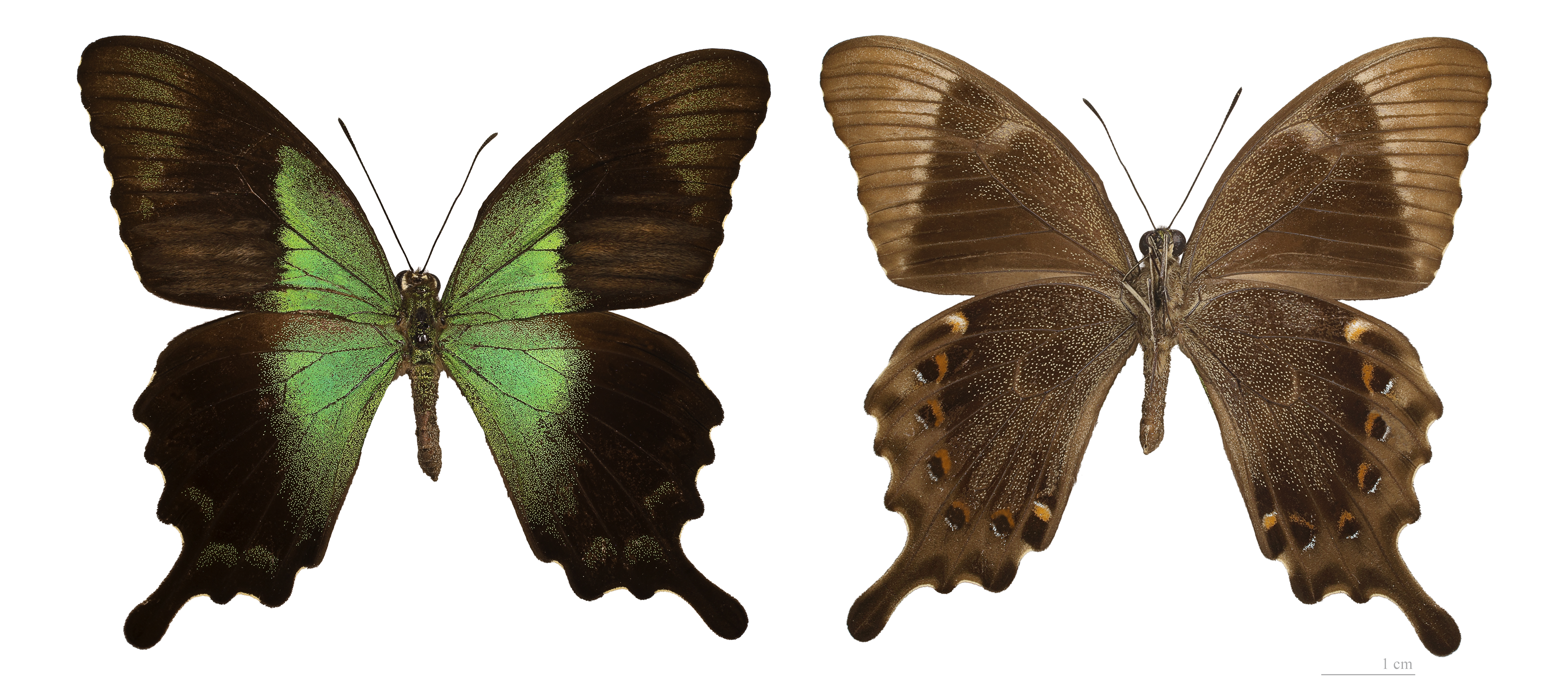 2 views of the same specimen.